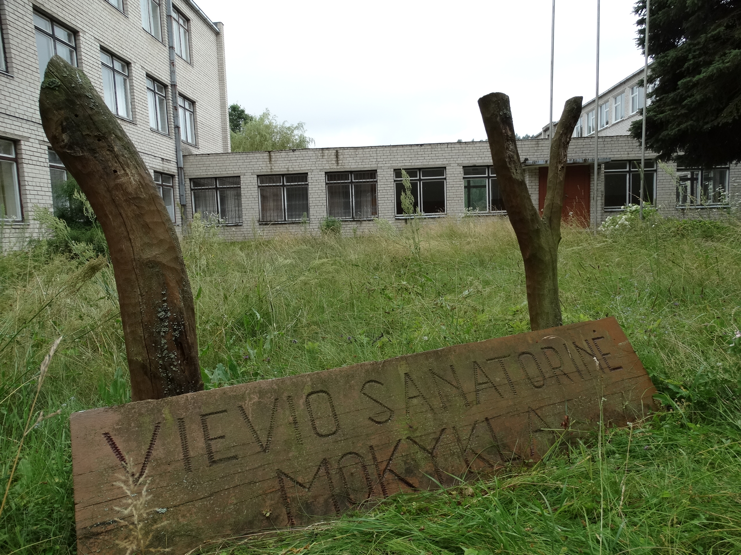 Vievis Sanatorium School, signboard, Paneriai, Elektrėnai Municipality, Lithuania